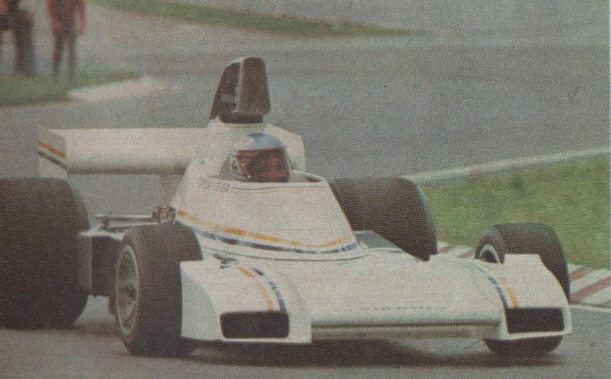 Néstor García Veiga tests the Berta LR F1 at the Autódromo Oscar y Juan Gálvez, in late 1974.